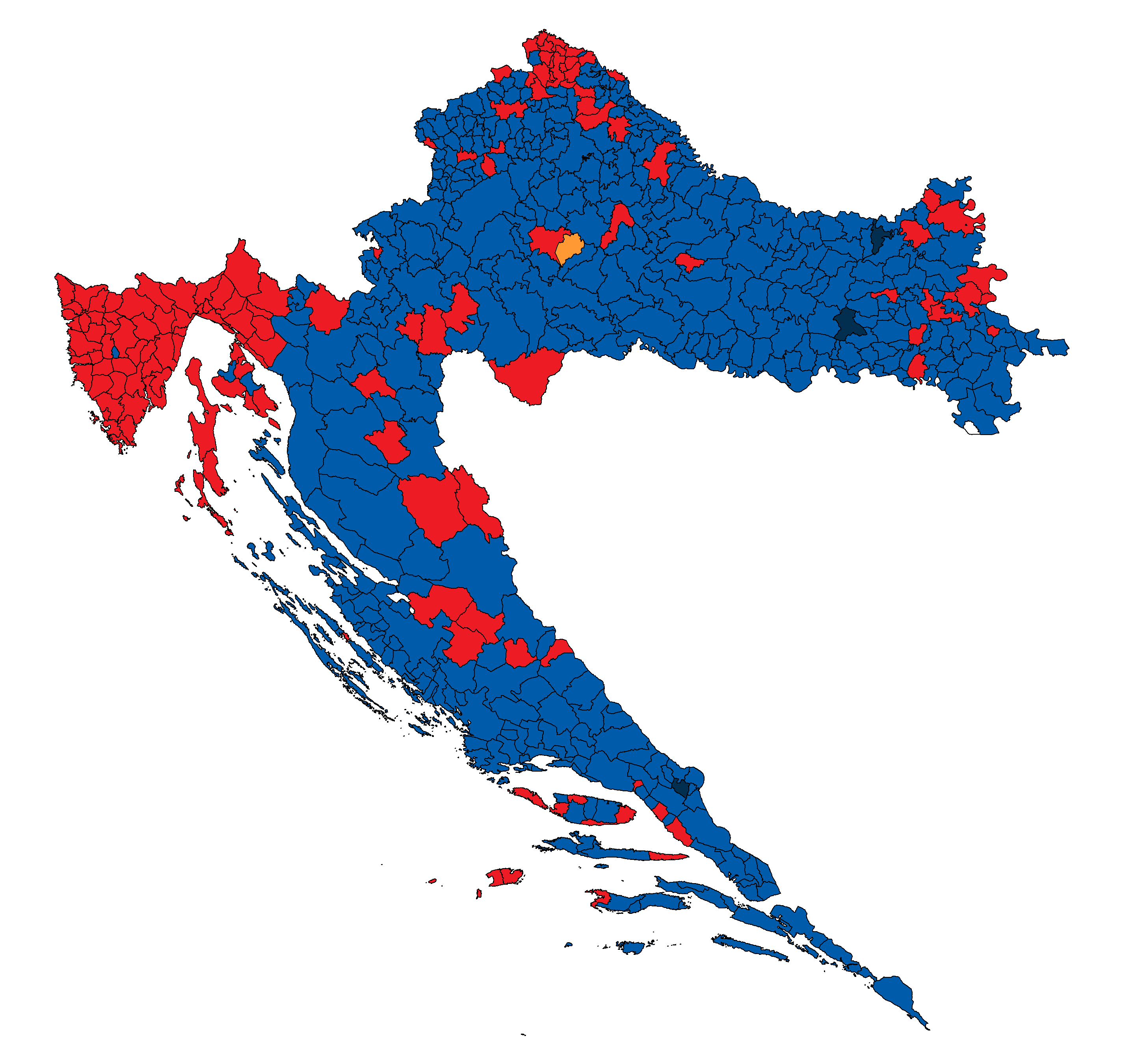 Results of the 2014 European Parliament election in Croatia, based on the majority of votes in each municipality of Croatia